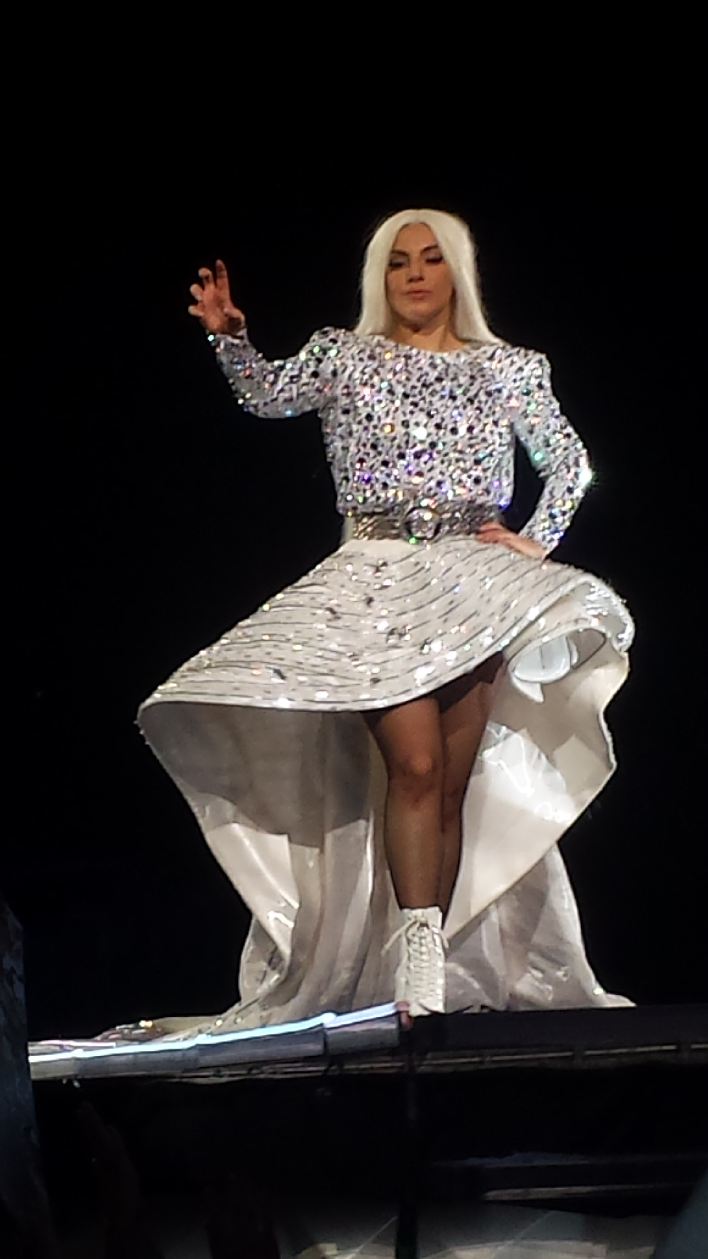 Lady Gaga performing her song "Gypsy" on the ArtRave: The Artpop Ball, in Glasgow, in 2014.